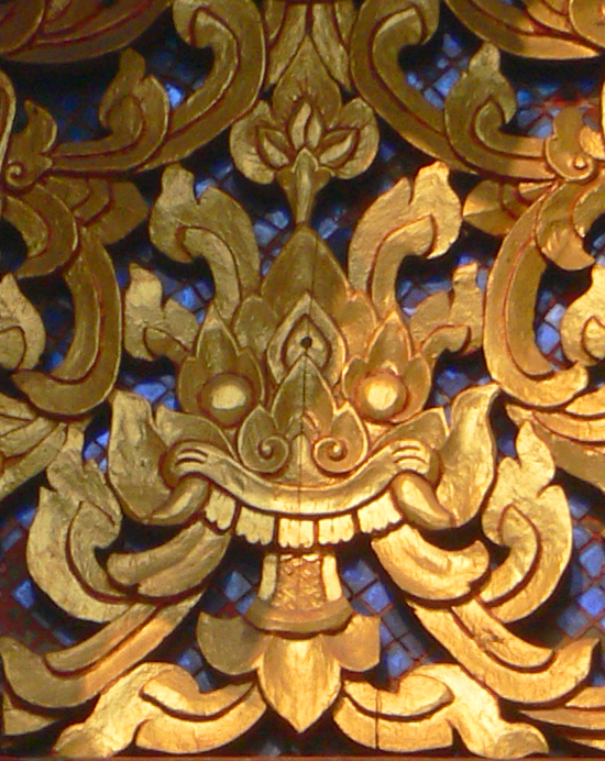 Detail of GableKirtimukhaP1040930.JPG, the Kirtimuka face in the gable of the ubosot-building of Wat Ban Ping in Chiang Mai